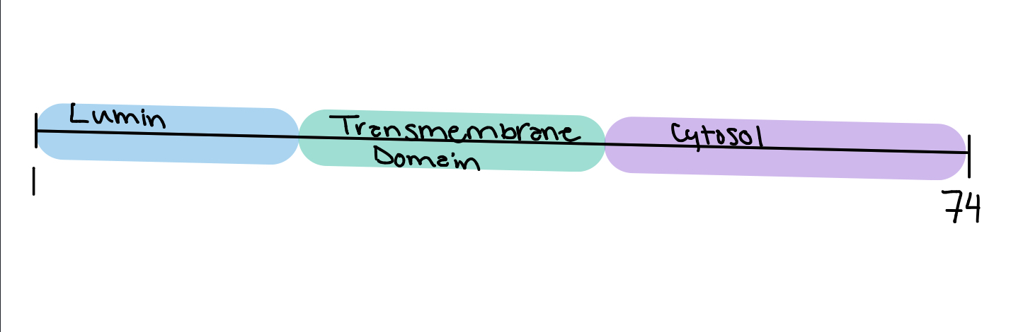 This schematic shows the different domains within Human SMIM15. These include luminal, transmembrane, and cytosolic regions.